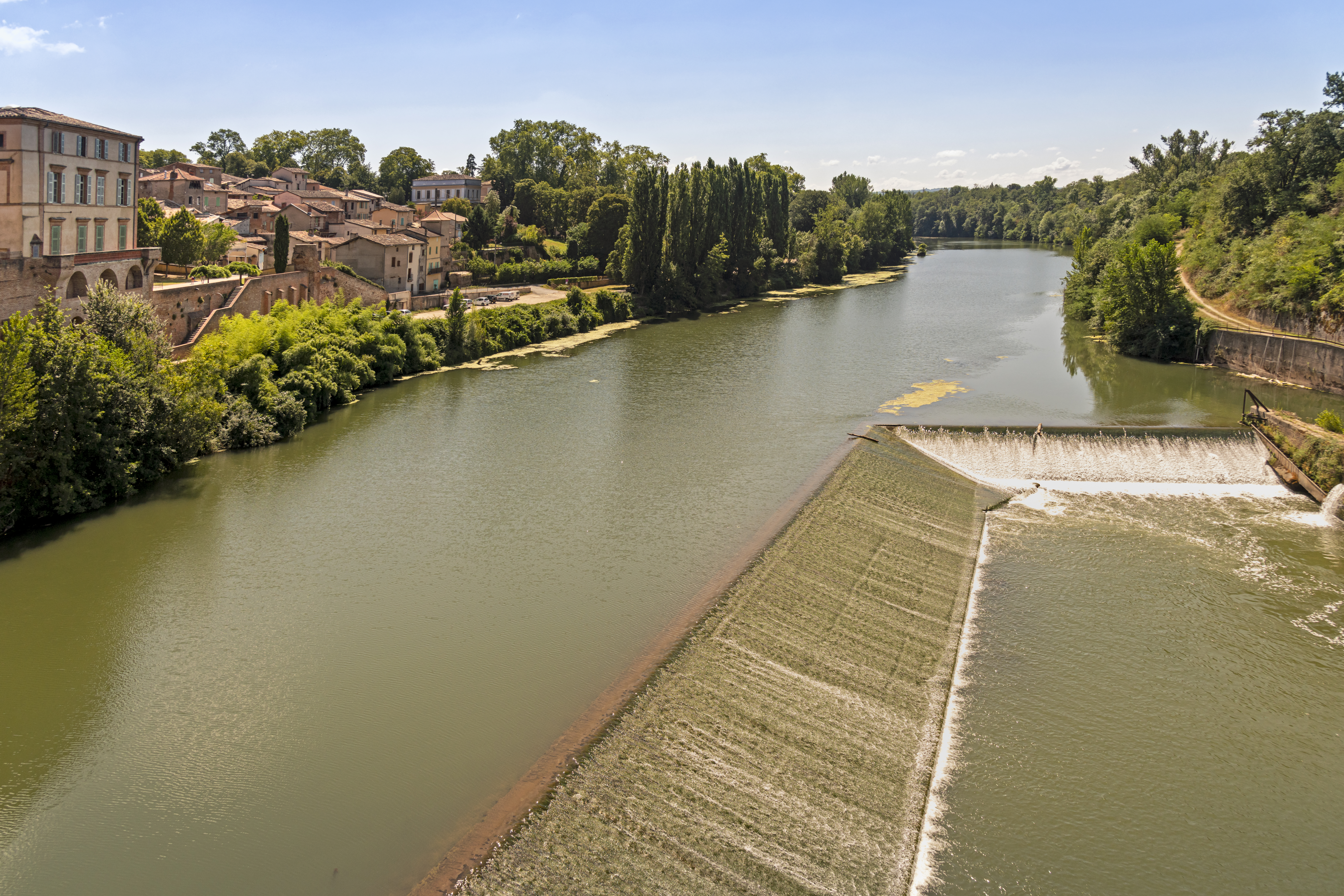 Gaillac - Weir on Tarn river, view from the Pont Saint-Michel.